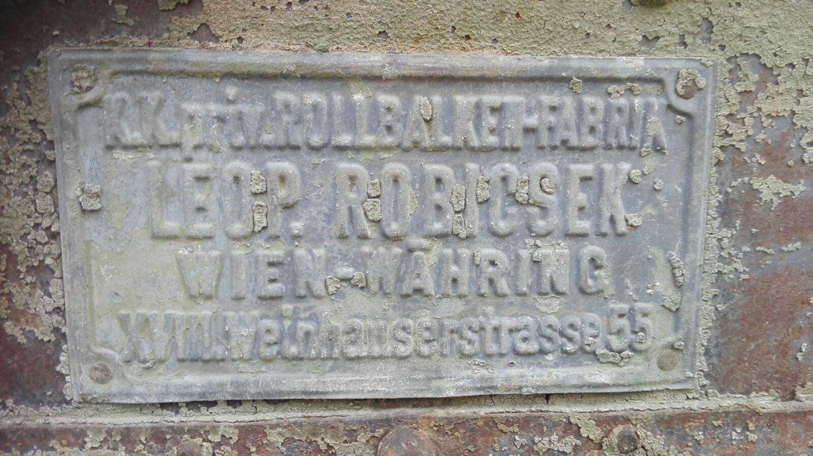 Roller shutter in Bozen-Gries (label), produced in Vienna-Währing by Leo Robicsek, 1910 ca.